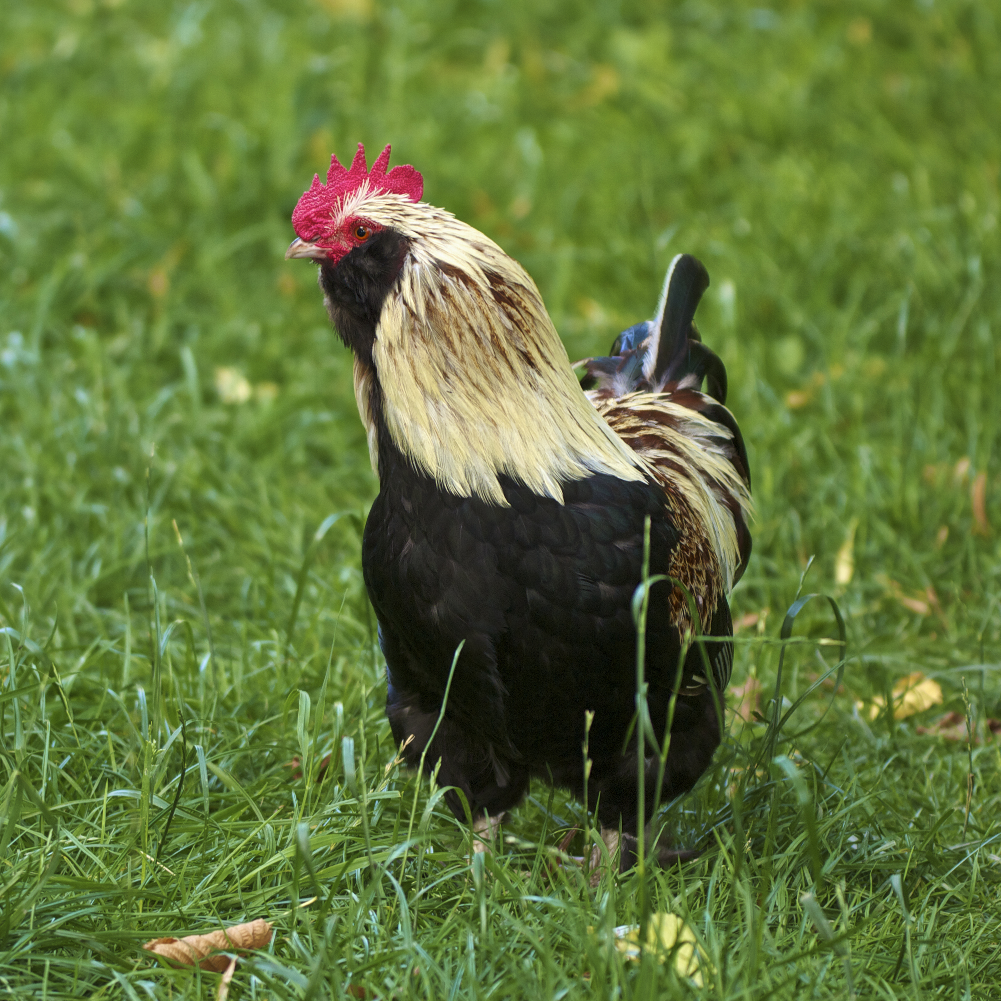 Domestic Rooster (Gallus gallus domesticus), "Deutsches Lachshuhn", Chemnitz, Germany